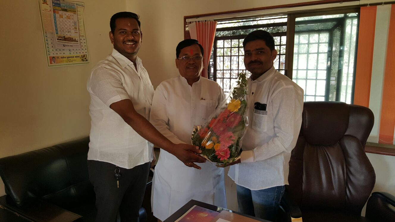 collegues